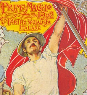 Manifesto del Partito Socialista Italiano 1902